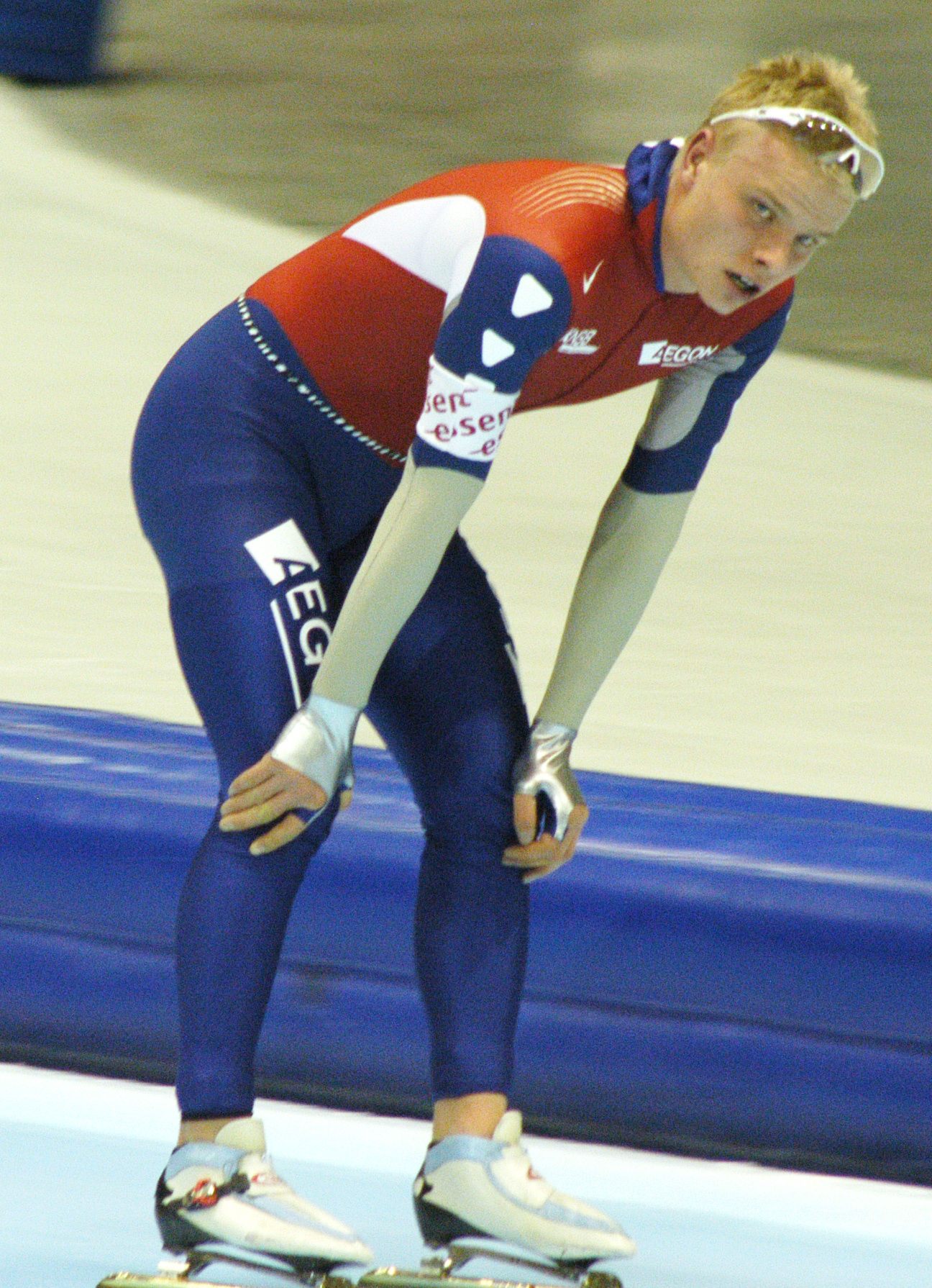 Koen Verweij (NED) at the 2009 European Allround Speed Skating Championship at Heerenveen, the Netherlands.